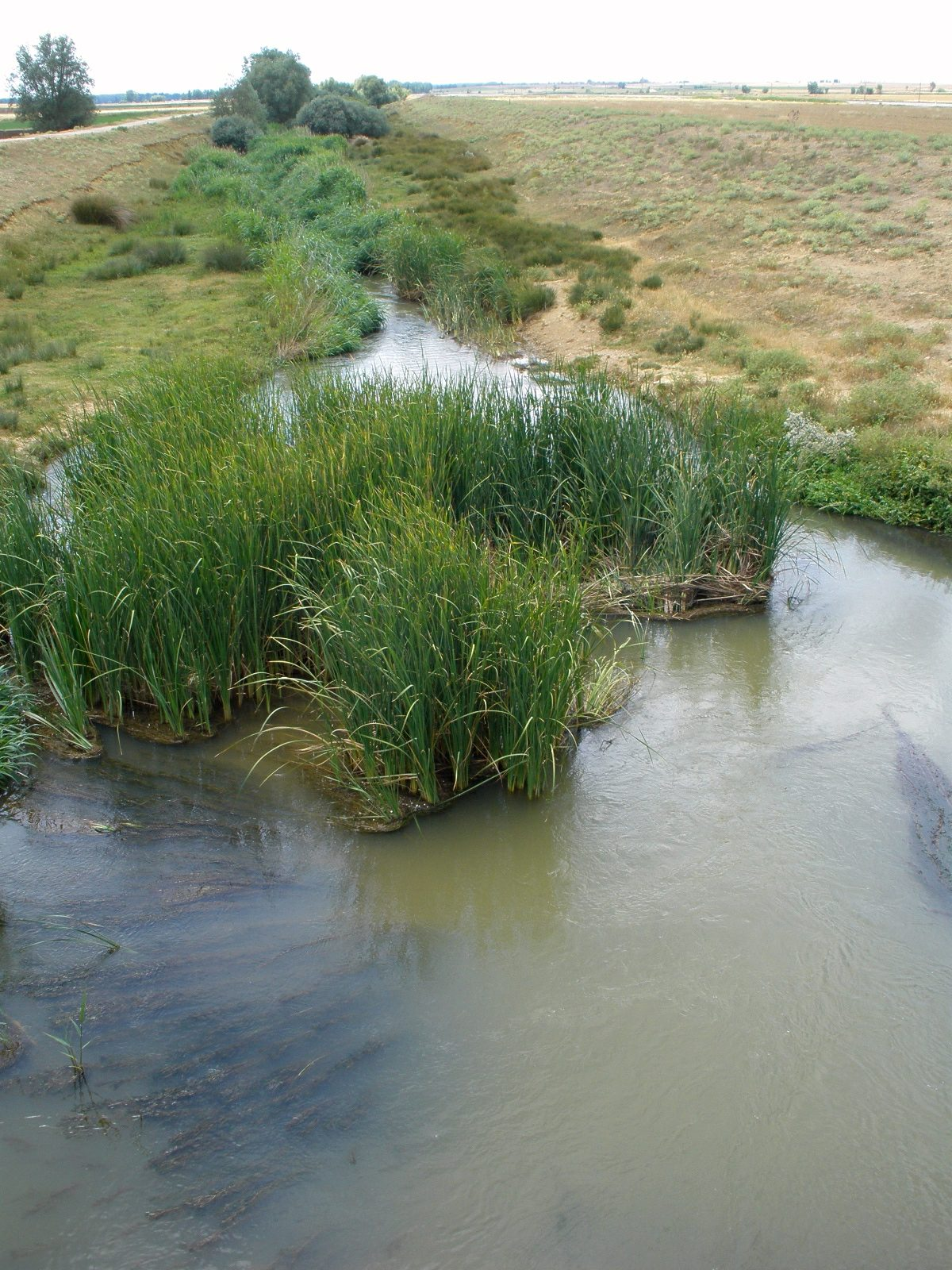 Río Ucieza en las proximidades de Amusco (Palencia)